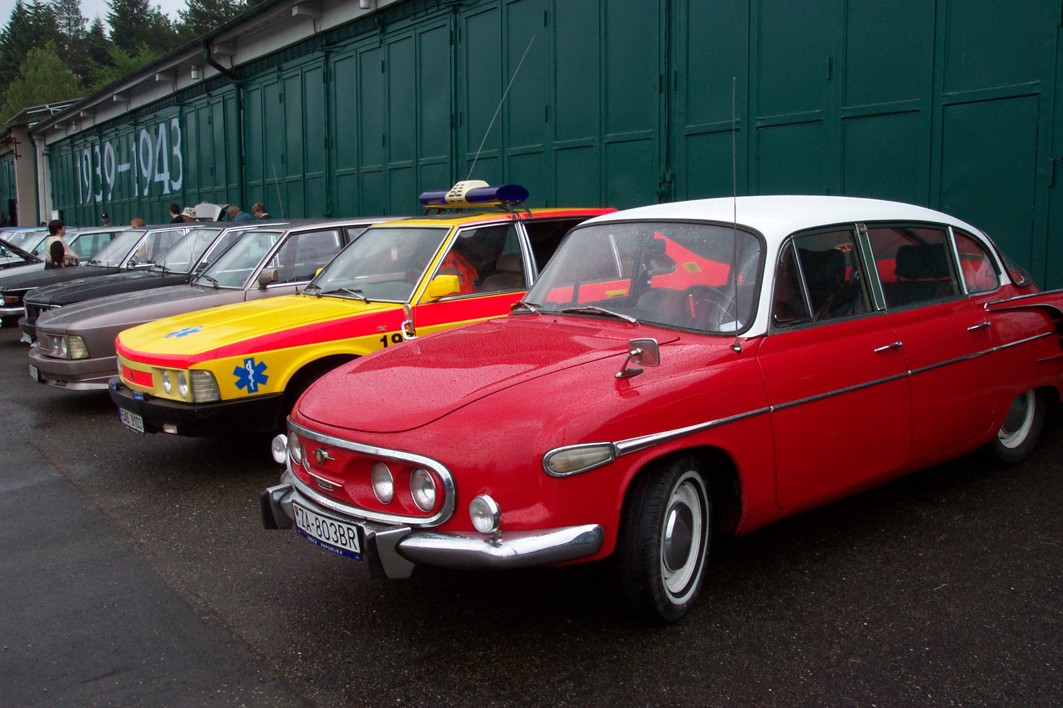 Tatra automobiles in VTM Lešany museum